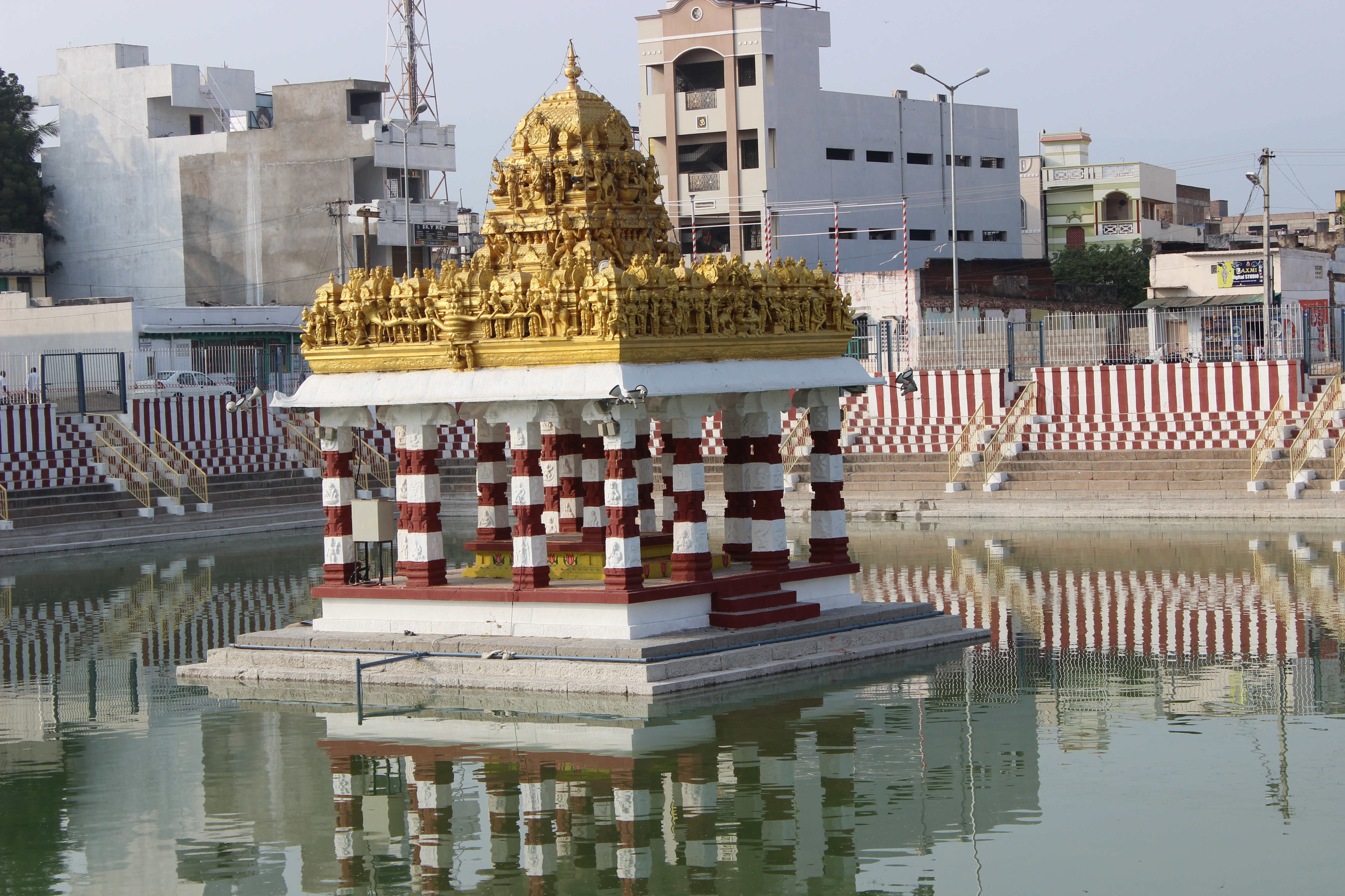 Thiruchanur